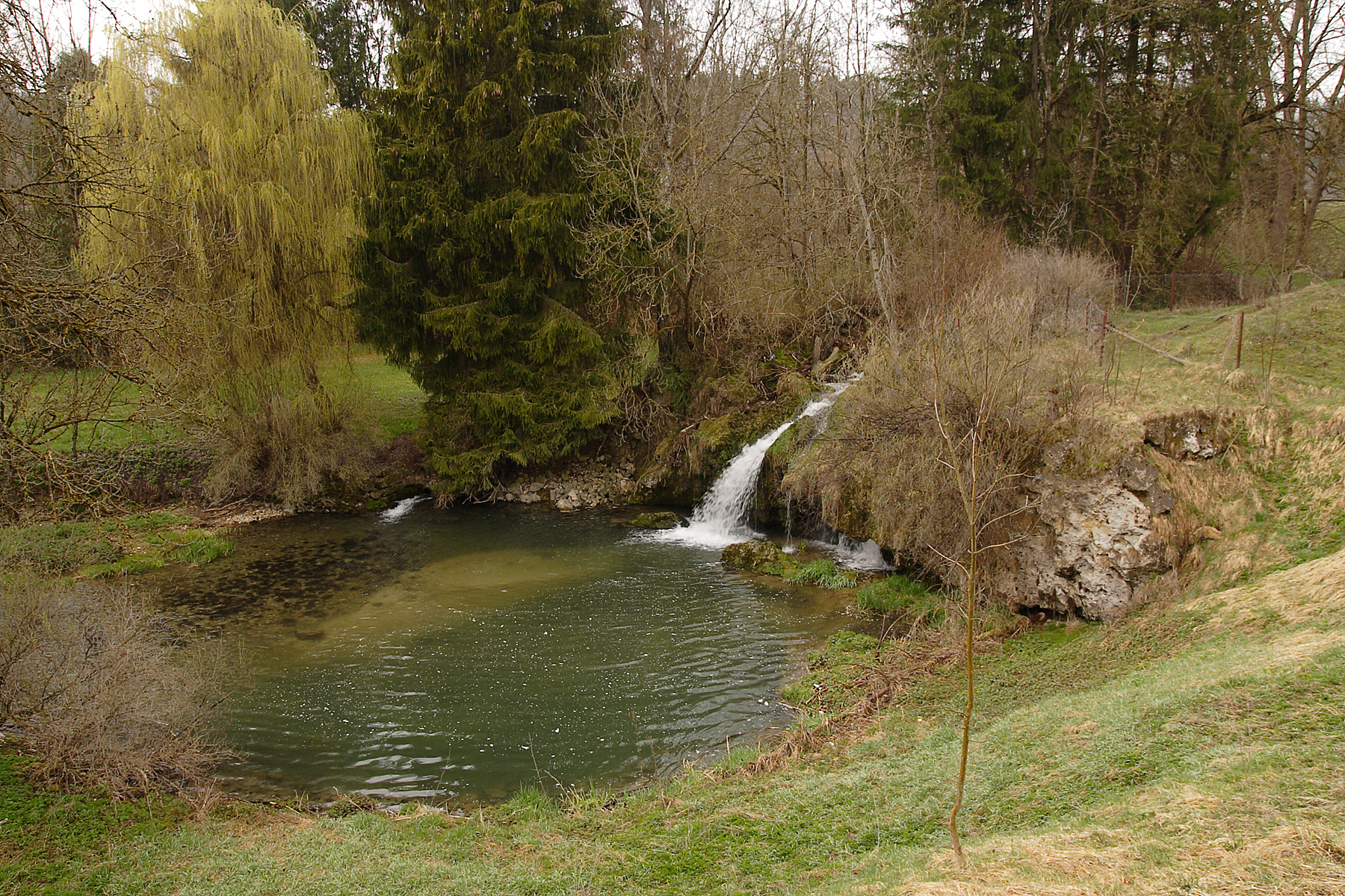 waterfall of the Lauchert at Veringendorf, Swabian Alb. 6-8m packed fluvial sediments (tufa, travertine, Kalktuff (German)) of holocene age cover a 1,8 x 0,5km valley and abruptly end in a waterfall, called "Gieß Wasserfall".